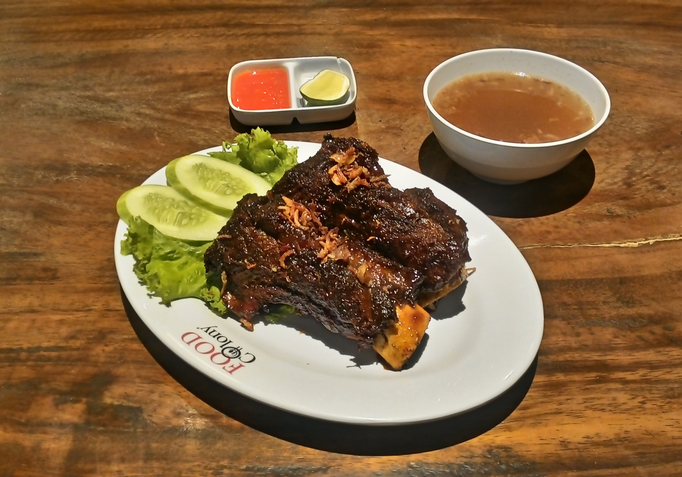 Konro Bakar, grilled spicy ribs, a specialty of Makassar cuisine, South Sulawesi. Served in Food Colony foodcourt in Pasar Festival, South Jakarta, Indonesia.